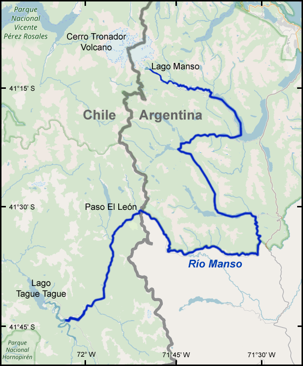 Course of the Rio Manso River in Argentina and Chile. Source map from Open Street Maps.